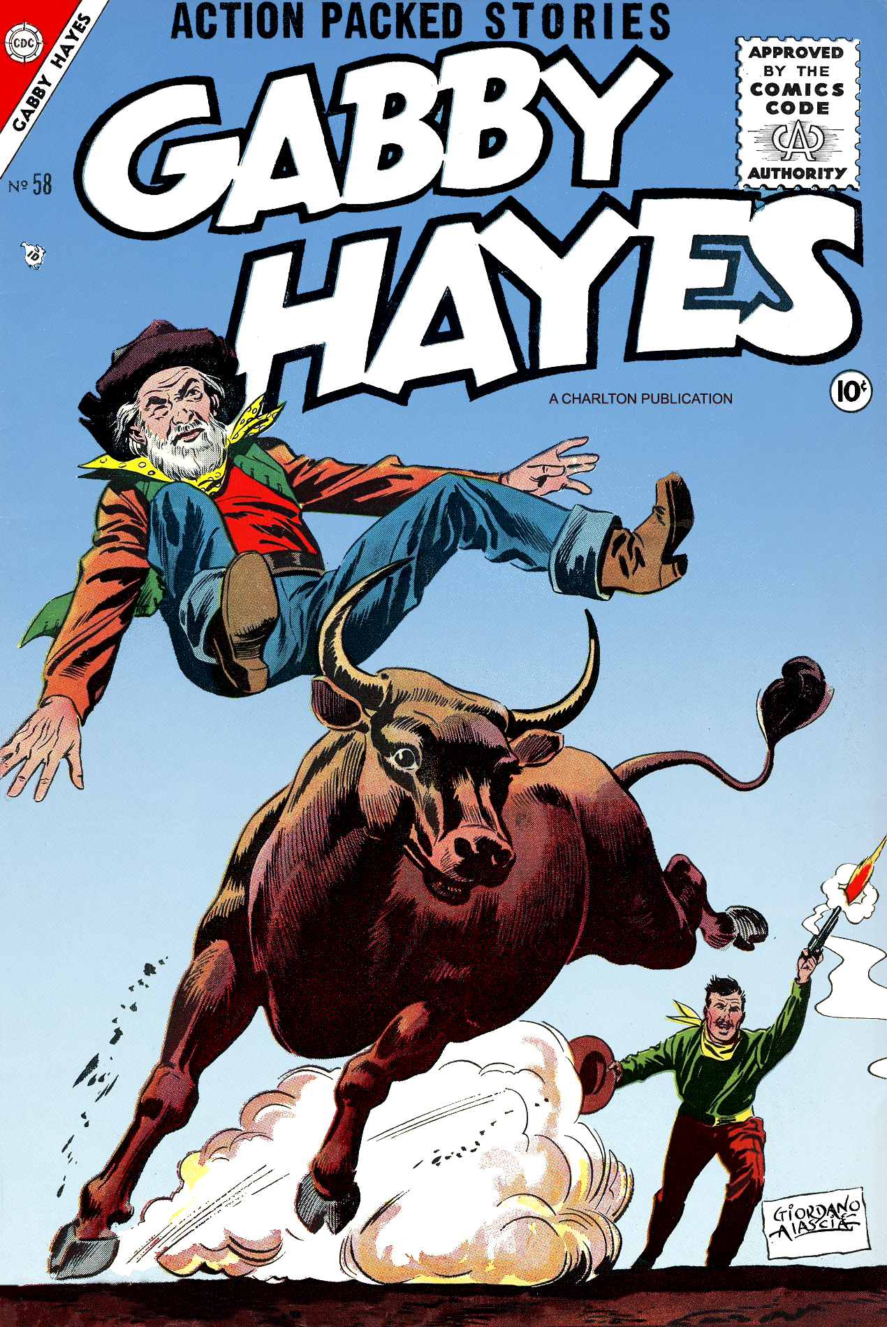 Cover of Gabby Hayes comics n°58 (Charlton Comics, June, 1956). Artwork by Dick Giordano.